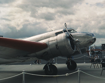 Linda Finch's Electra 10A in 2007 on the tarmac for viewing